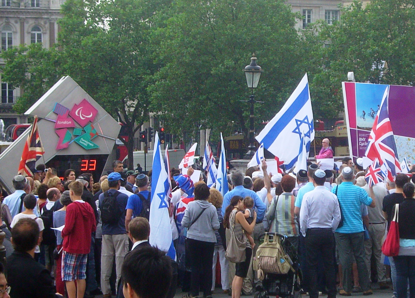 Tribute to murdered Israeli athletes of the 1972 Olympics, Trafalgar Square, London